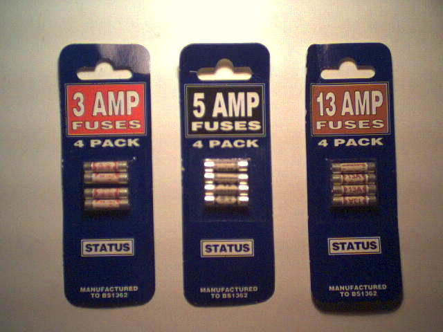 I created this image.